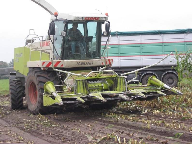 Claas Jaguar 870 forage harvester